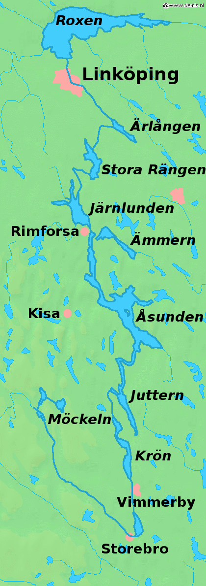 Stångån (river) in Sweden. Bounding box West 15.4°, South 57.5°, East 16.1°, North 58.55°. Center at 58°01′30″N 15°45′00″E / 58.02500°N 15.75000°E.